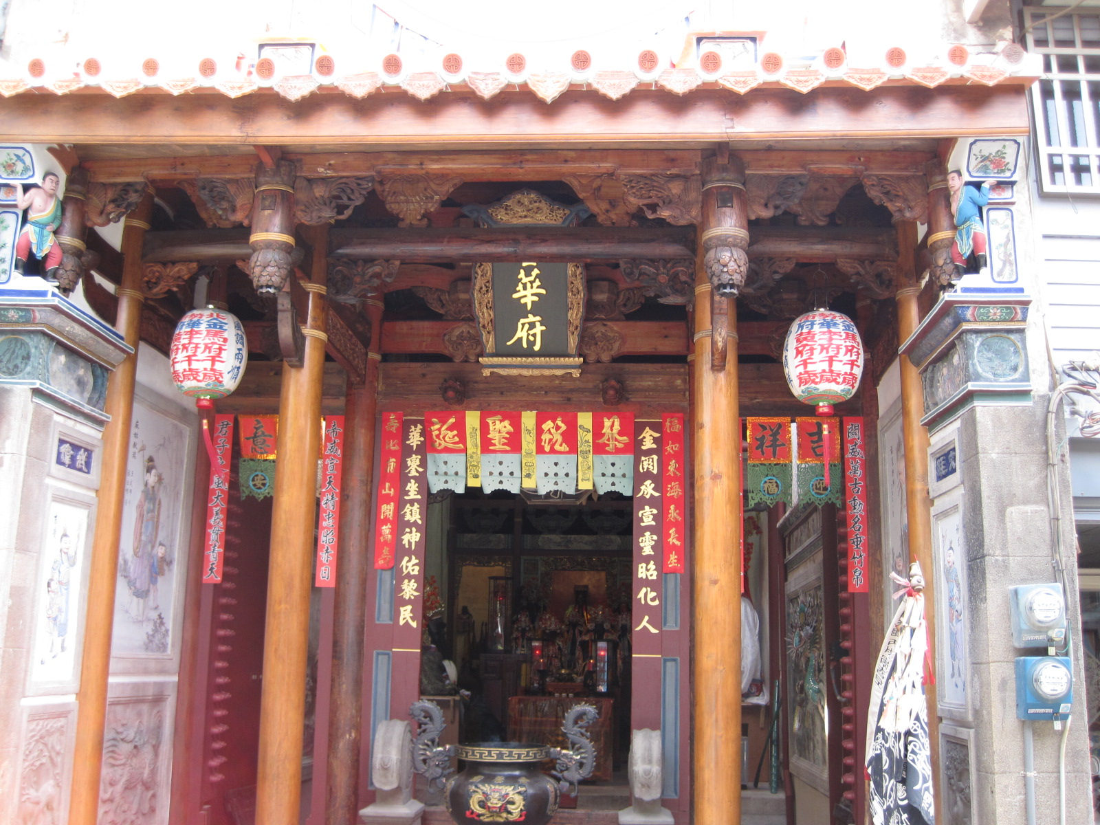 Jinhua Temple, Tainan, Taiwan